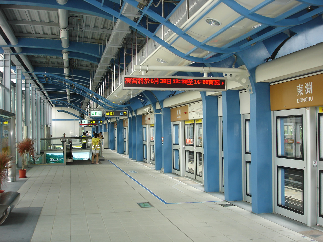 The platform of MRT Donghu Station.